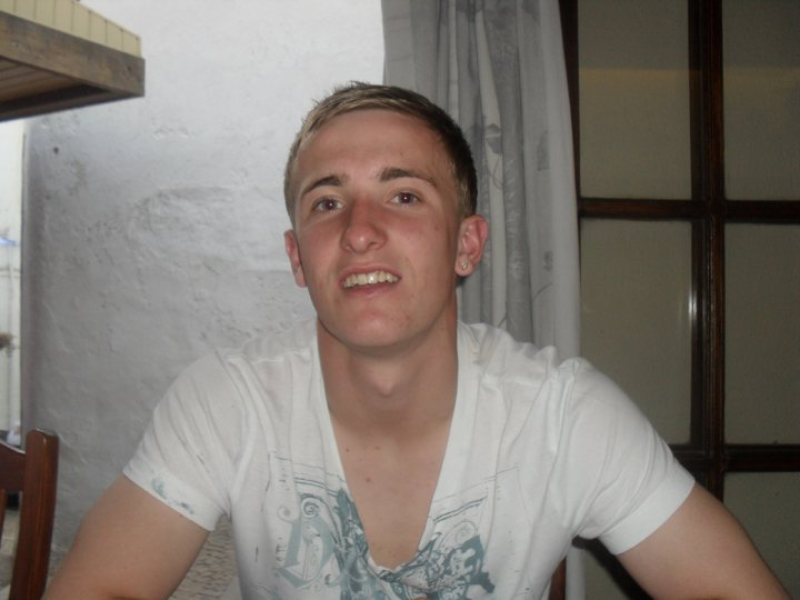 Aidan Chippendale. Former Accrington Stanley and Huddersfield Town player.